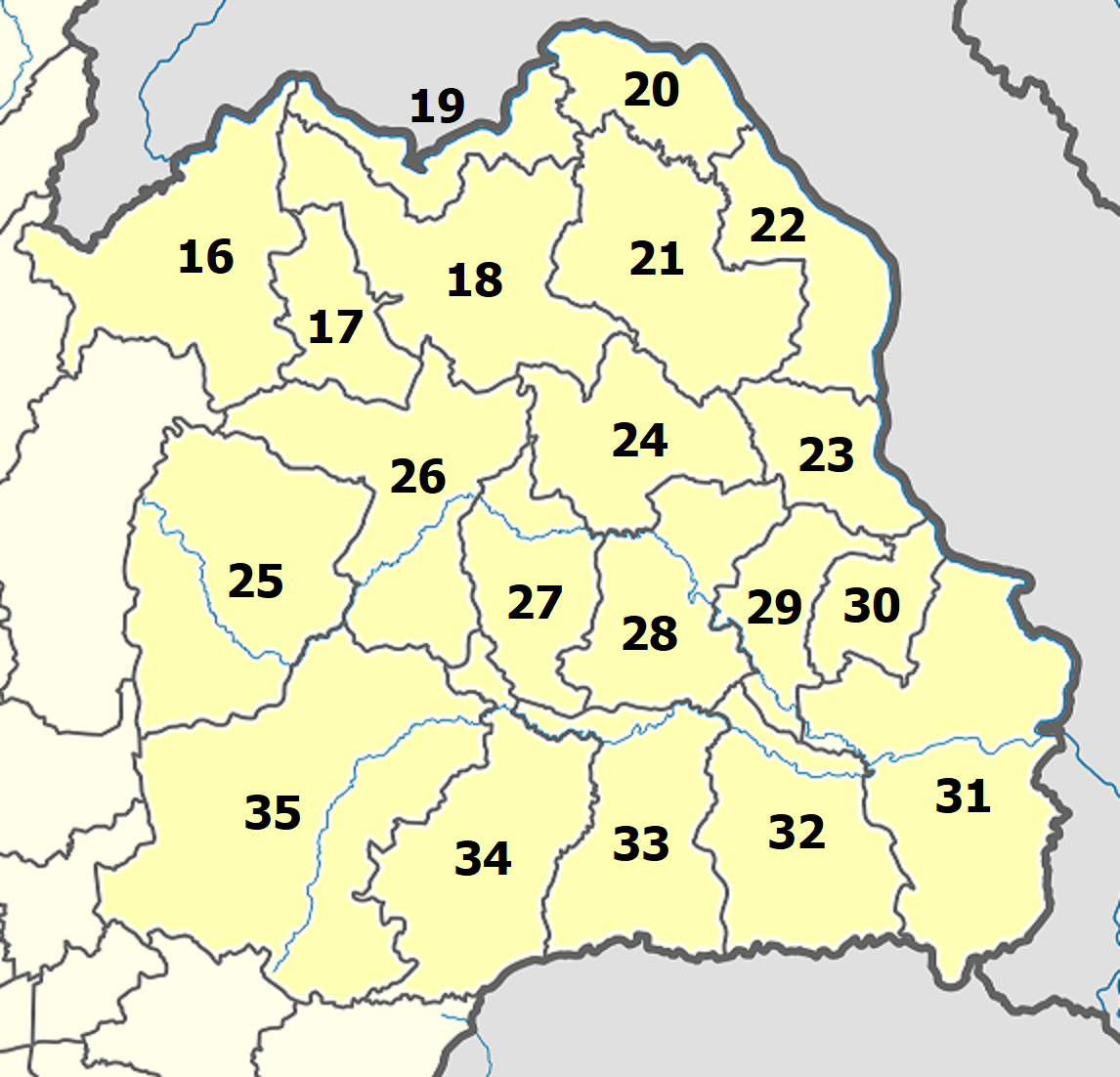 Northeastern region with 20 provinces according to TMD